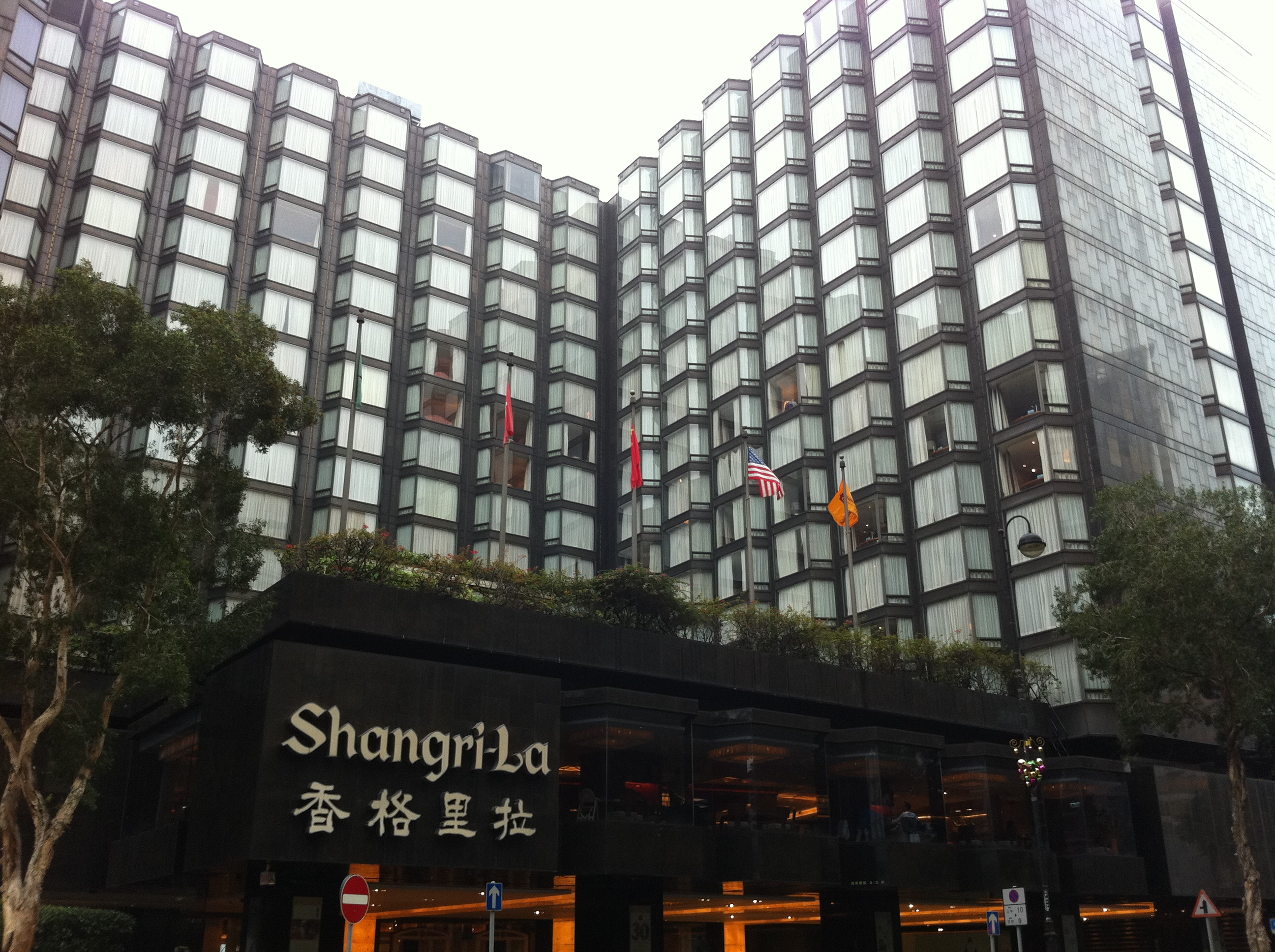 九龍香格里拉酒店, Kowloon Shangri-La, No.64 Mody Road, Tsim Sha Tsui East, Kowloon, Hong Kong